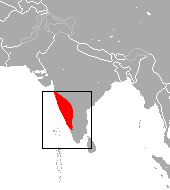 Black-footed Gray Langur (Semnopithecus hypoleucos) range